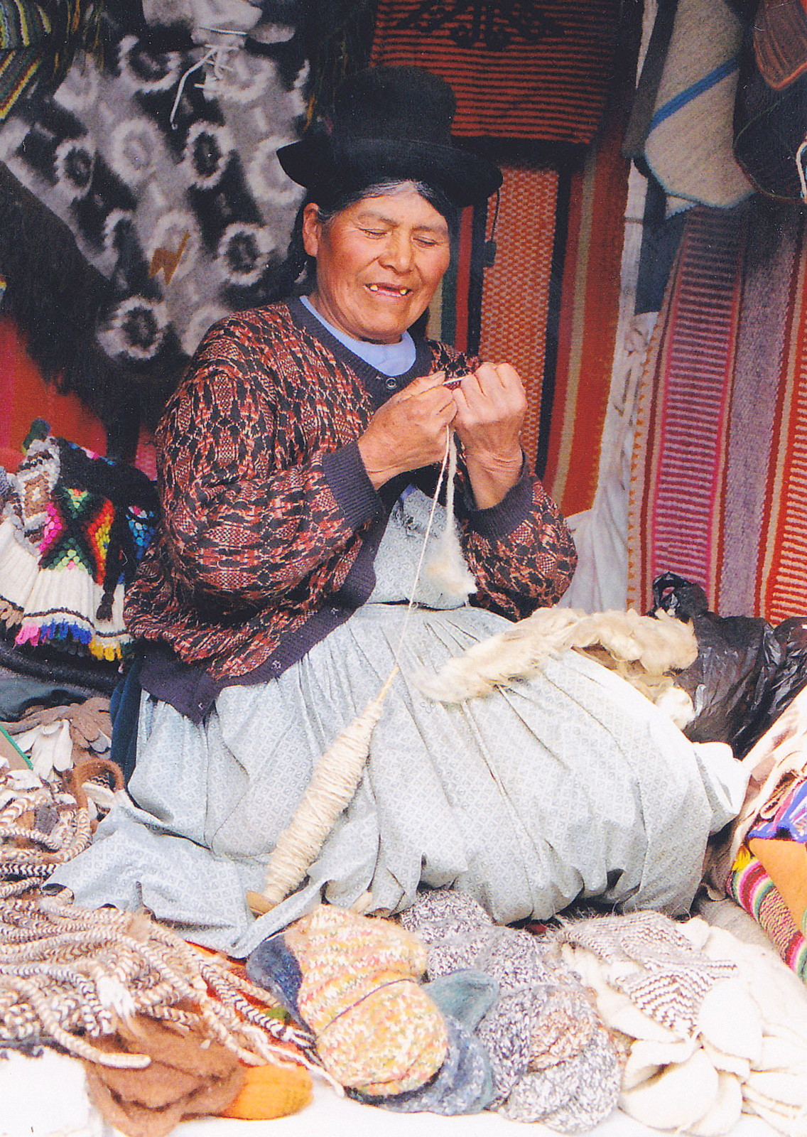 Old Indian woman spinning yarn with the drop spindle for example sling weapons on a market in Peru.